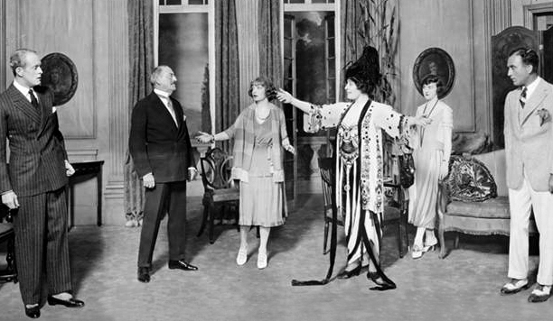 Photograph of the Broadway production of the 1921 play The Circle, by W. Somerset Maugham Caption reads as follows:SCENE IN W. SOMERSET MAUGHAM'S COMEDY "THE CIRCLE"Act I. Lady Kitty (Mrs. Leslie Carter), not having seen her son for thirty years, naturally mistakes Teddie for her own offspring, on whom she turns her back Cast (from left): Robert Rendel, John Drew, Estelle Winwood, Mrs. Leslie Carter, Maxine MacDonald, John Halliday